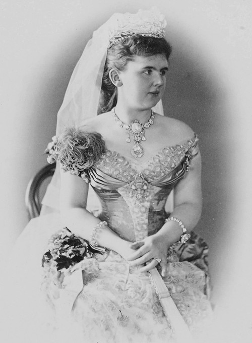 Photograph of Emma, Queen of the Netherlands